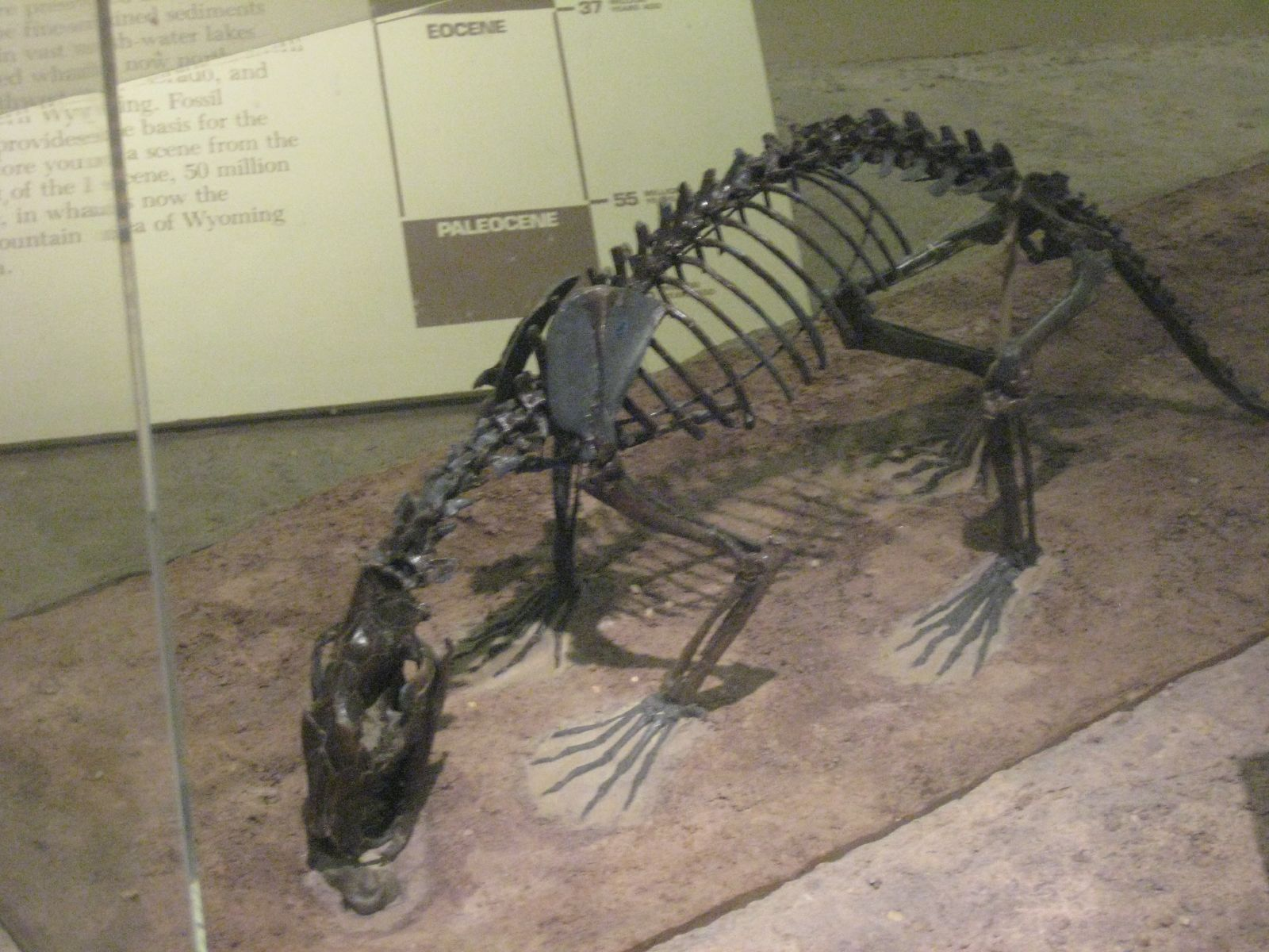 50 million years old Early Eocene